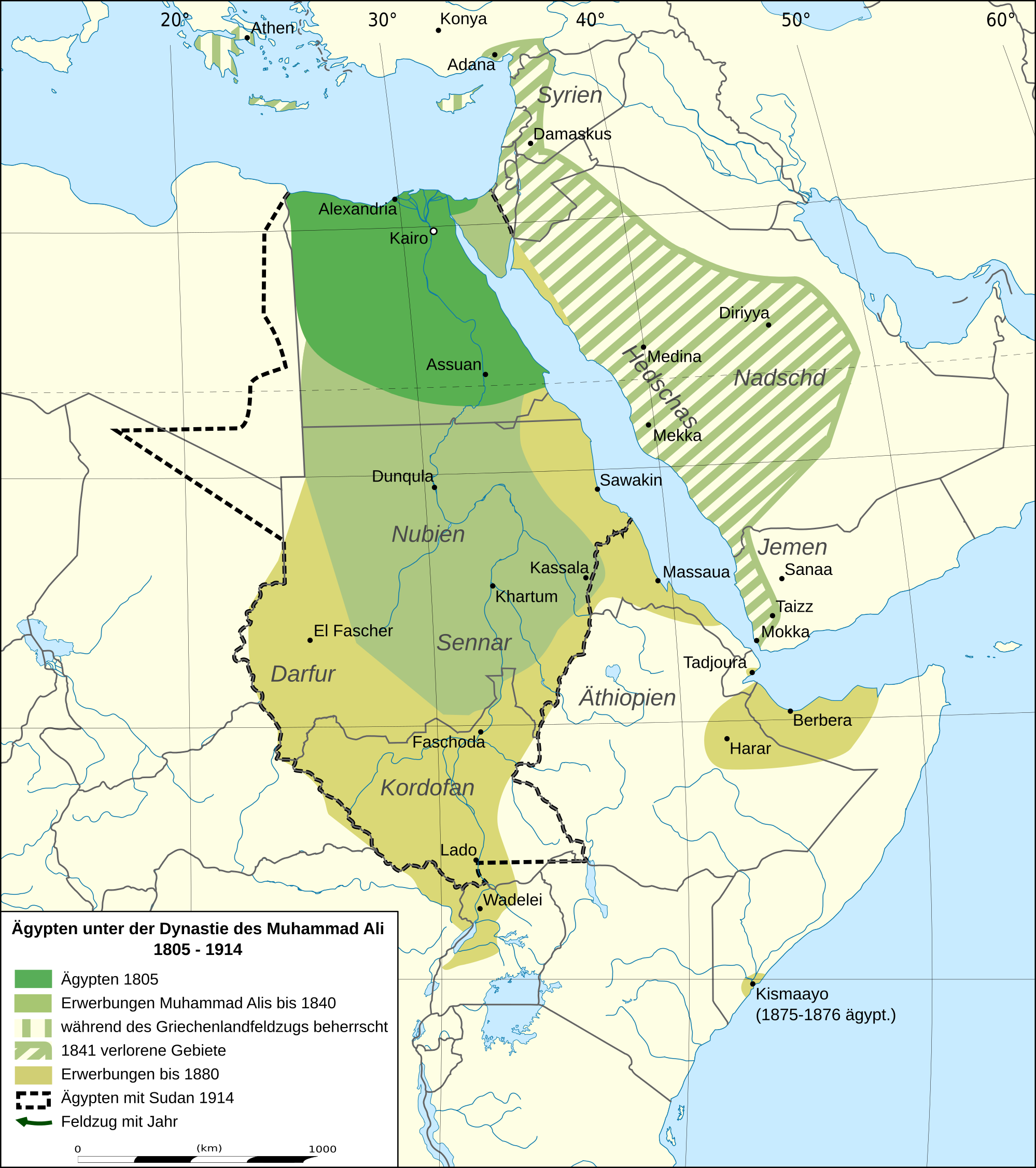 Map of Egypt under Muhammad Ali Dynasty in German.